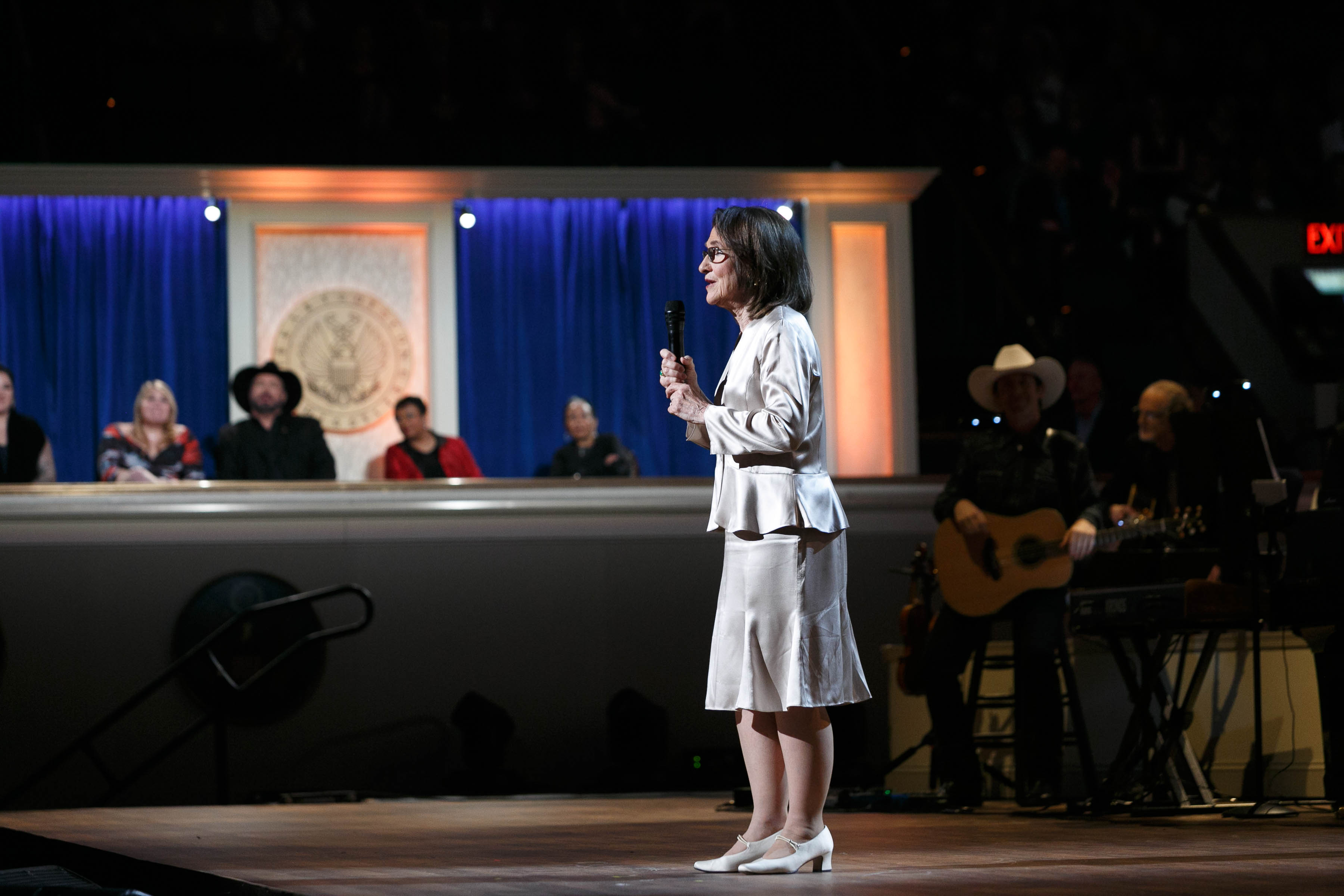 Author Margaret George speaks at the 2020 Library of Congress Gershwin Prize for Popular Song concert honoring Garth Brooks at DAR Constitution Hall in Washington, D.C., March 4, 2020. Photo by Shawn Miller/Library of Congress. Note: Privacy and publicity rights for individuals depicted may apply.